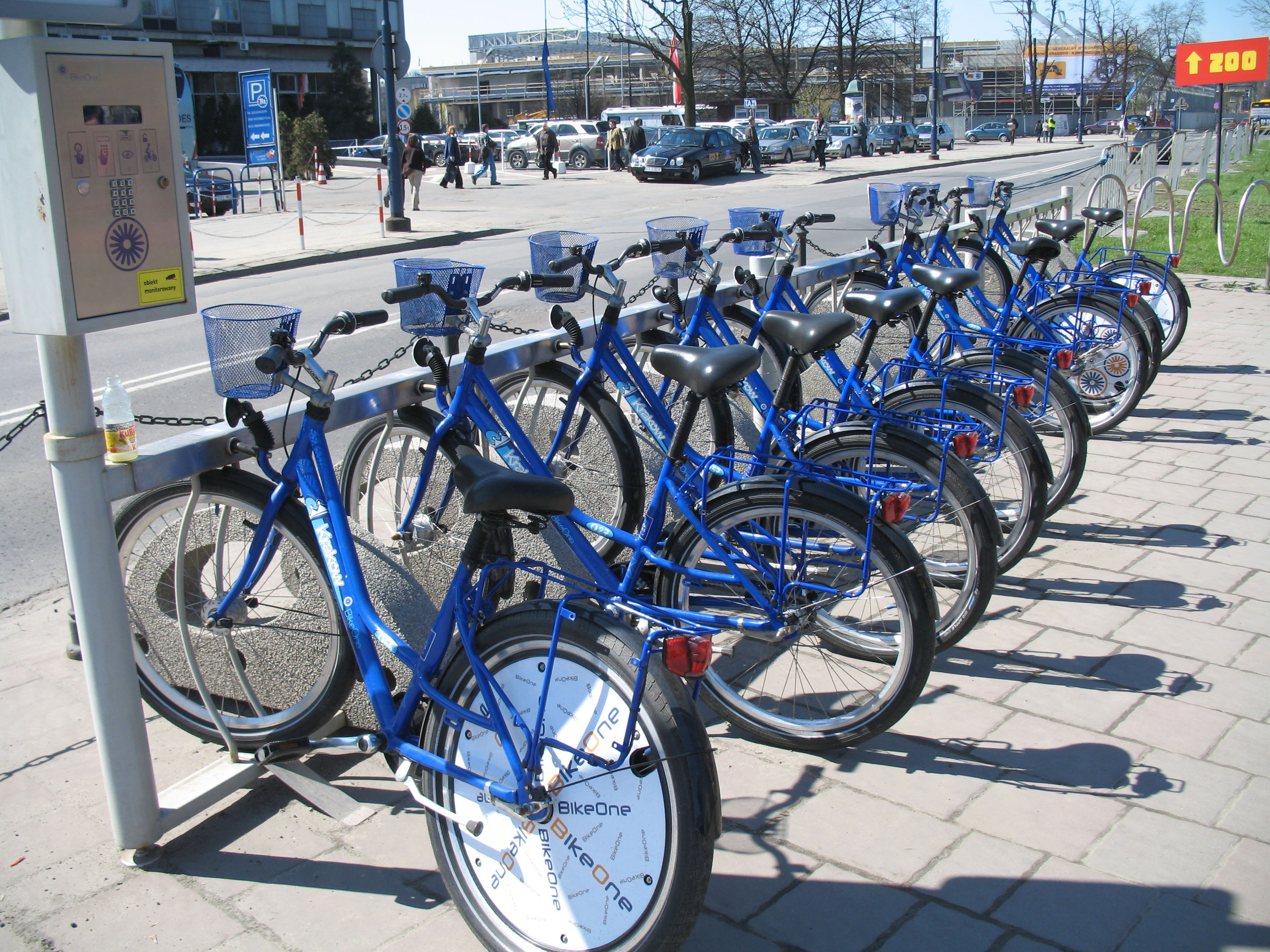 BikeOne - station of public bicycle sharing system in Kraków, Poland.